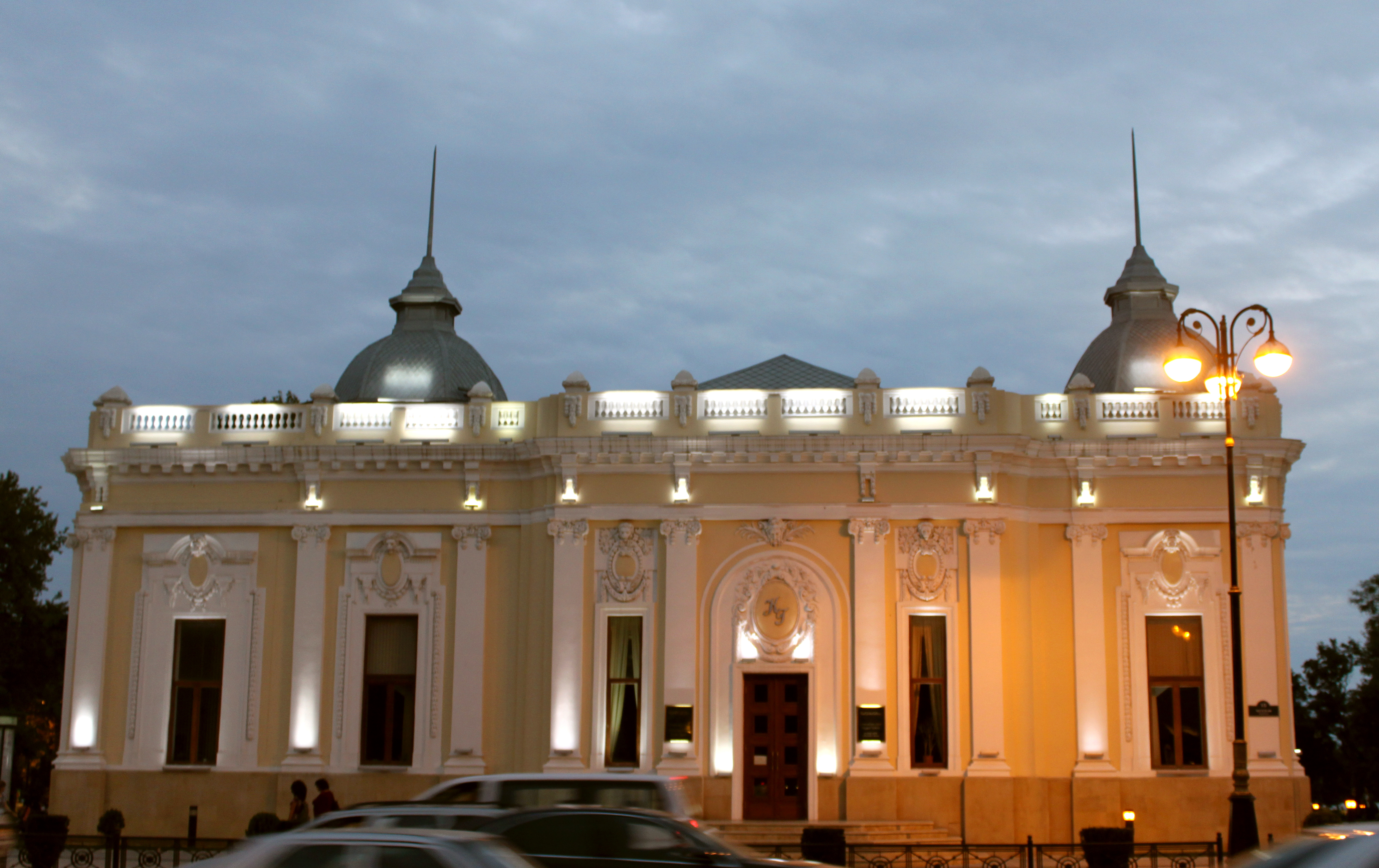 Baku Puppet Theatre building